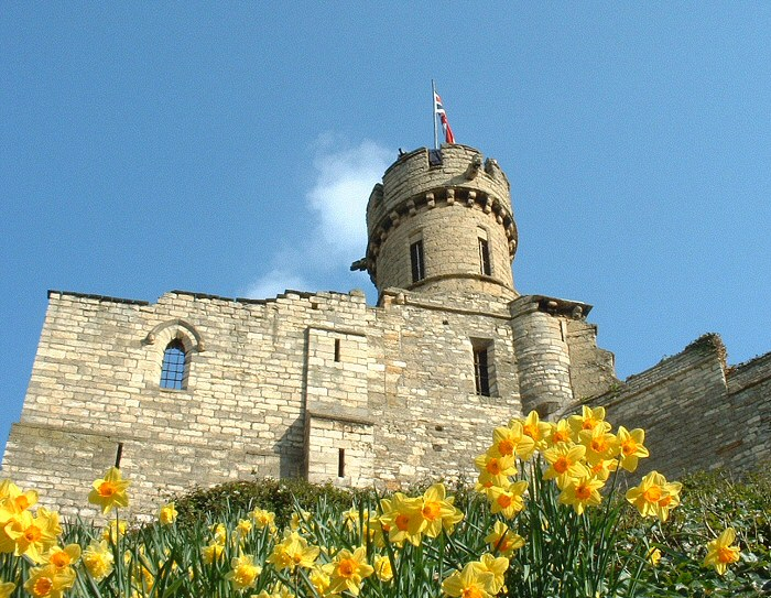 Lincoln Castle was built by William the Conqueror in 1068 on a defensive site occupied since Roman times. To enlarge the site for the new castle 166 houses were demolished. It is one of only two castles in Britain built with two mottes. A square tower was built on the smaller motte in the 14th century and in Victorian times an observatory (seen here) was added. The two mottes were enclosed by immense 12th century walls. The castle acted as the city's prison between 1787 and 1878 with coffin-like pews in the chapel to remind prisoners of their fate and to ensure they could not see each other. This shot was taken from within the castle walls, in the spring, a couple of years ago.